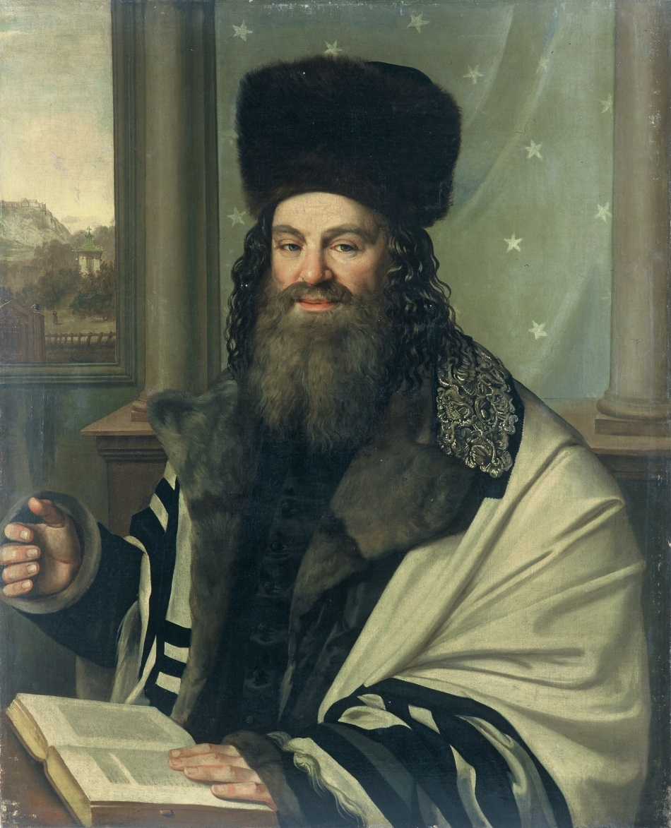 Portrait of Solomon Judah Loeb Rapoport (1790-1867) from the Jewish Museum, Prague